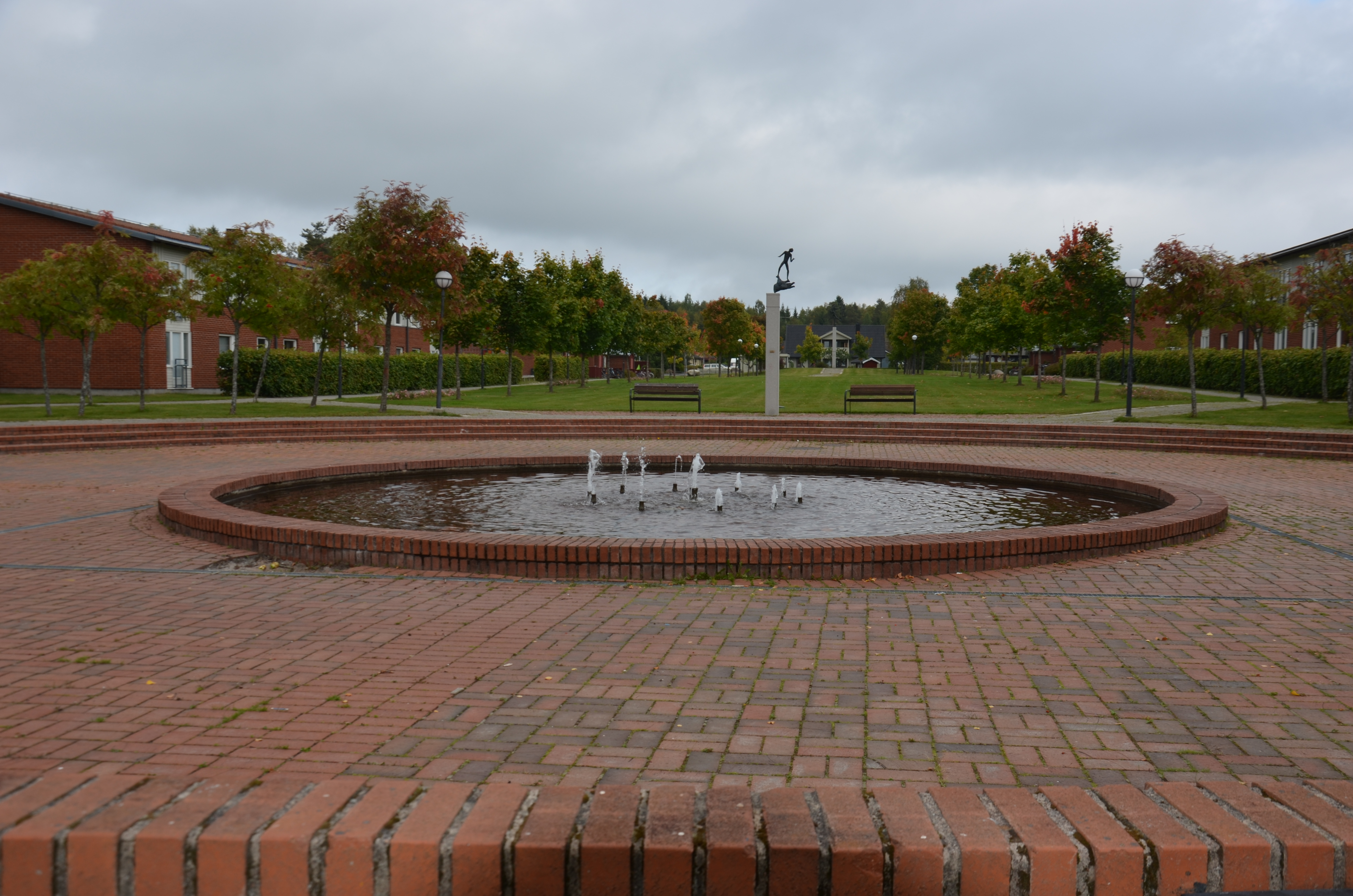 Millesparken i Hällefors